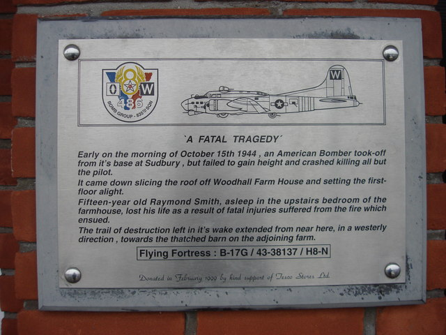 "A Fatal Tragedy". A memorial plaque remembering an aviation accident that happened in 1944. This plaque is situated on Tesco Supermarket Sudbury, close to the entrance shown in 447625. Since that picture was taken the supermarket has expanded and the entrance has been re-located, it remains to be seen whether Tesco will move this plaque nearer the new entrance.